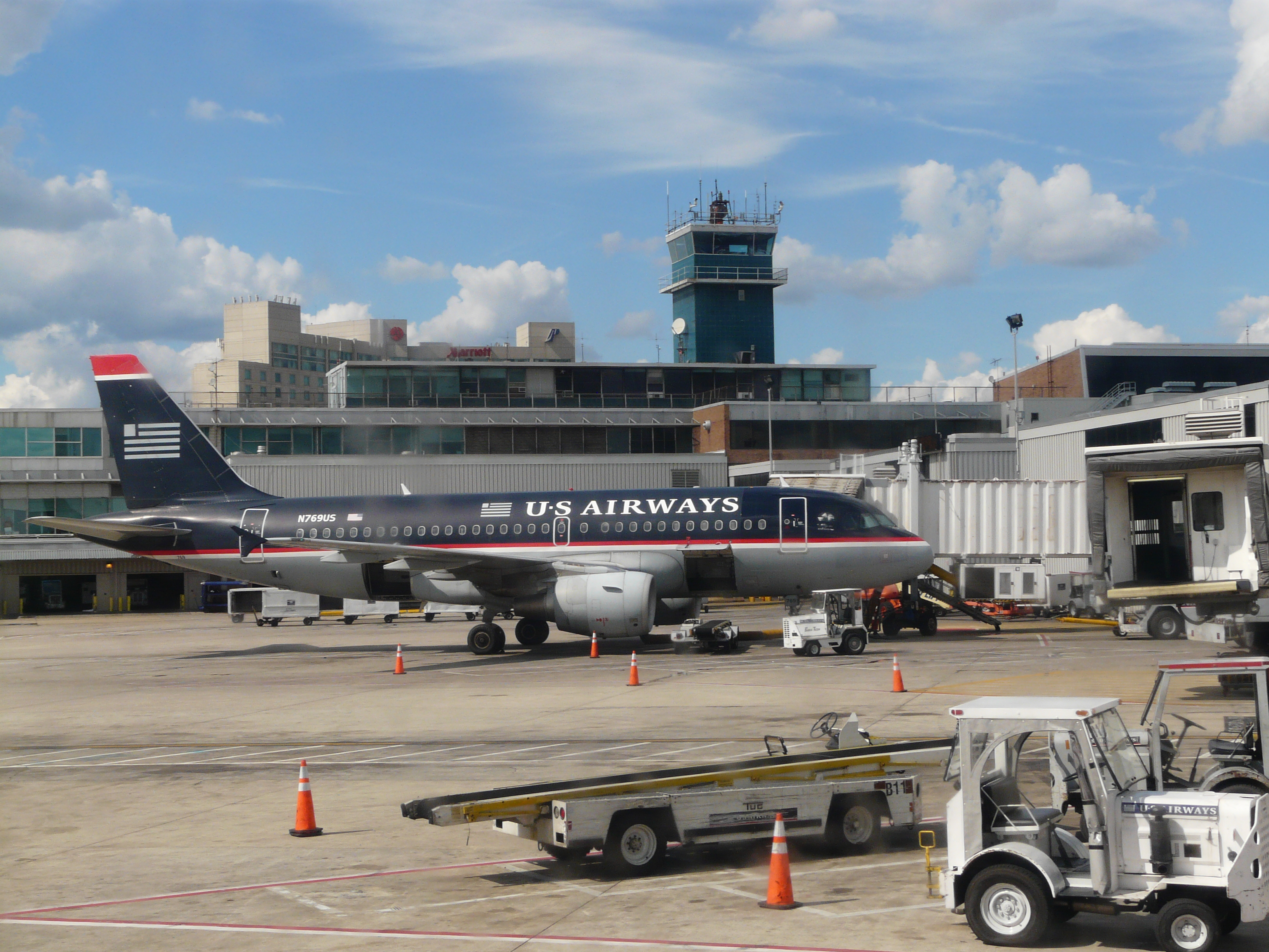 US Airways Airbus A319 registered N769US at Philadelphia International Airport.